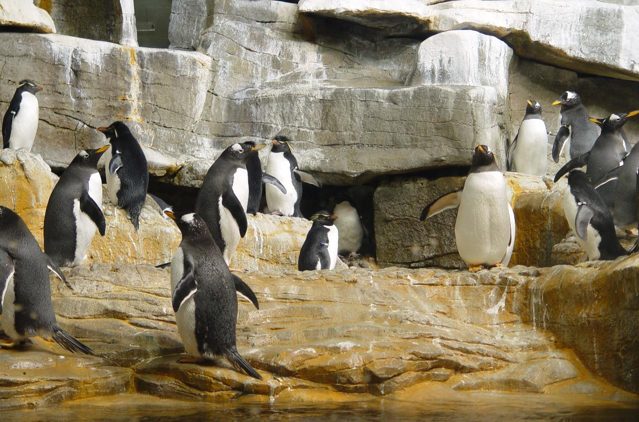 Happy feet! not so happy